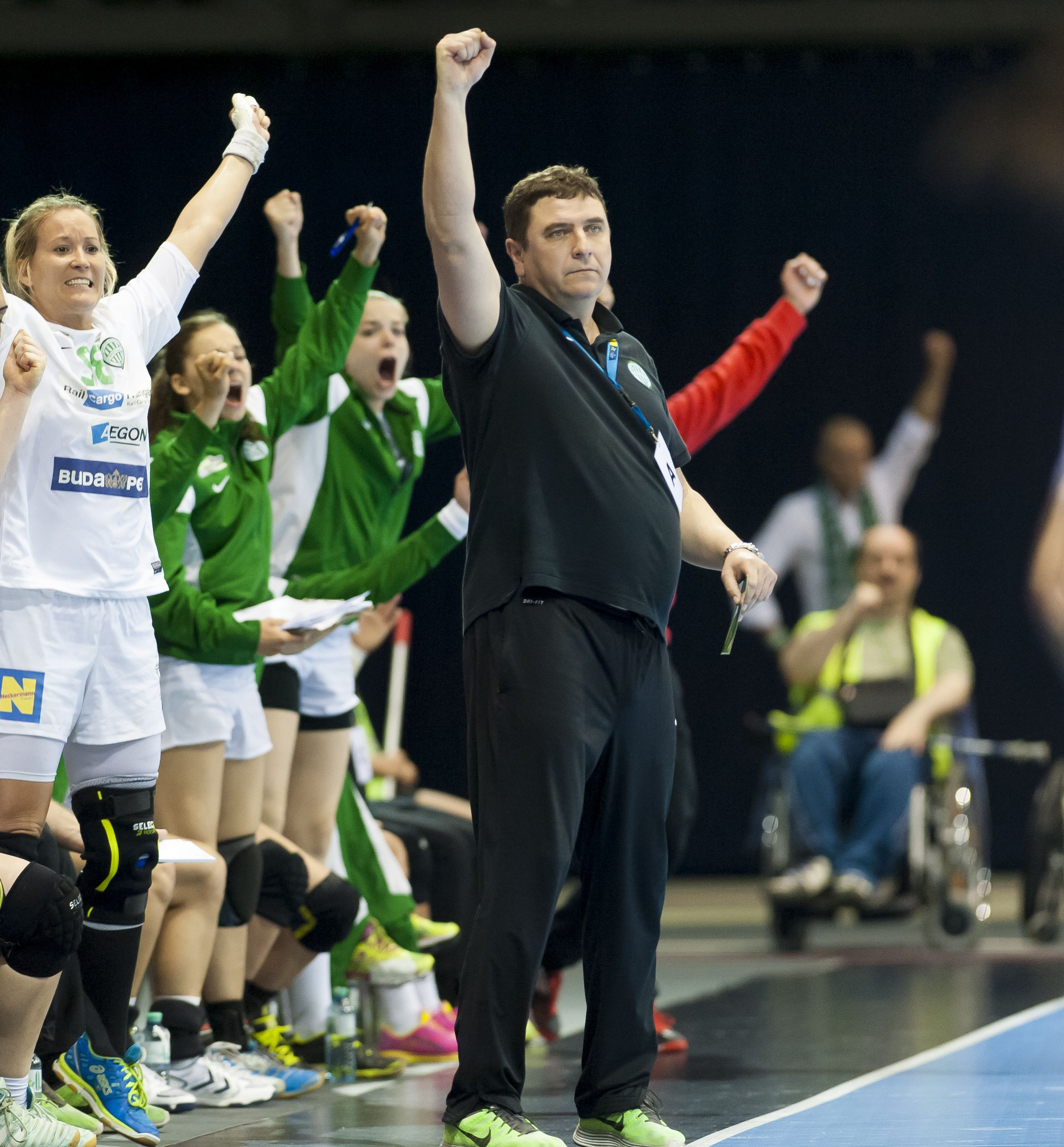 Hungarian Championship in Handball, Győr, 2015. May 14.